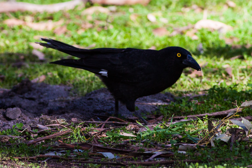 Pied Currawong (Strepera graculina)